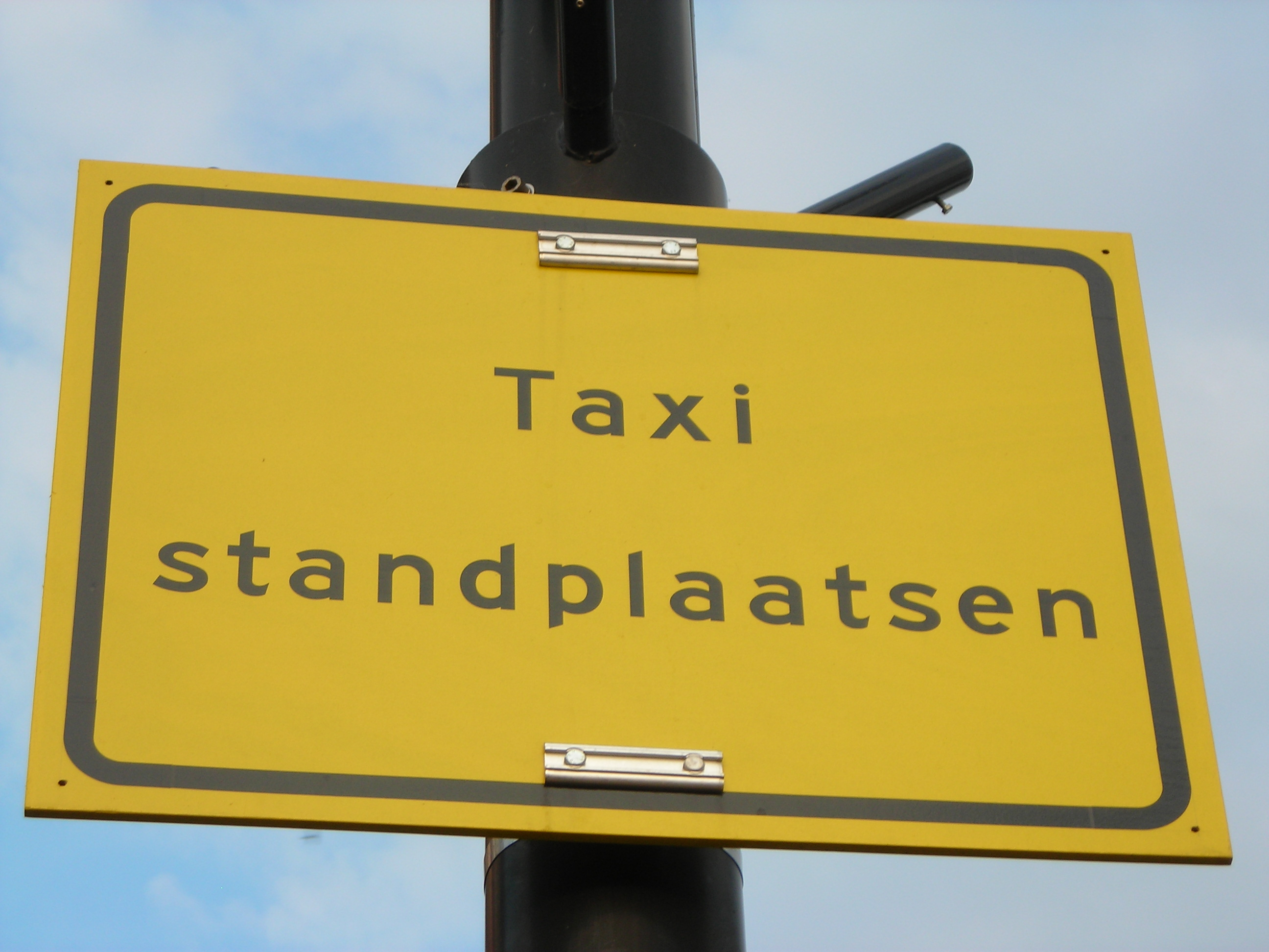 A sign in Nijmegen containing a spelling mistake